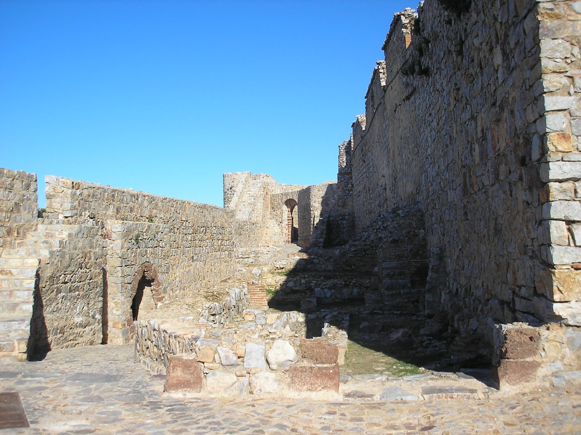 Calatrava Castle. Inside walls